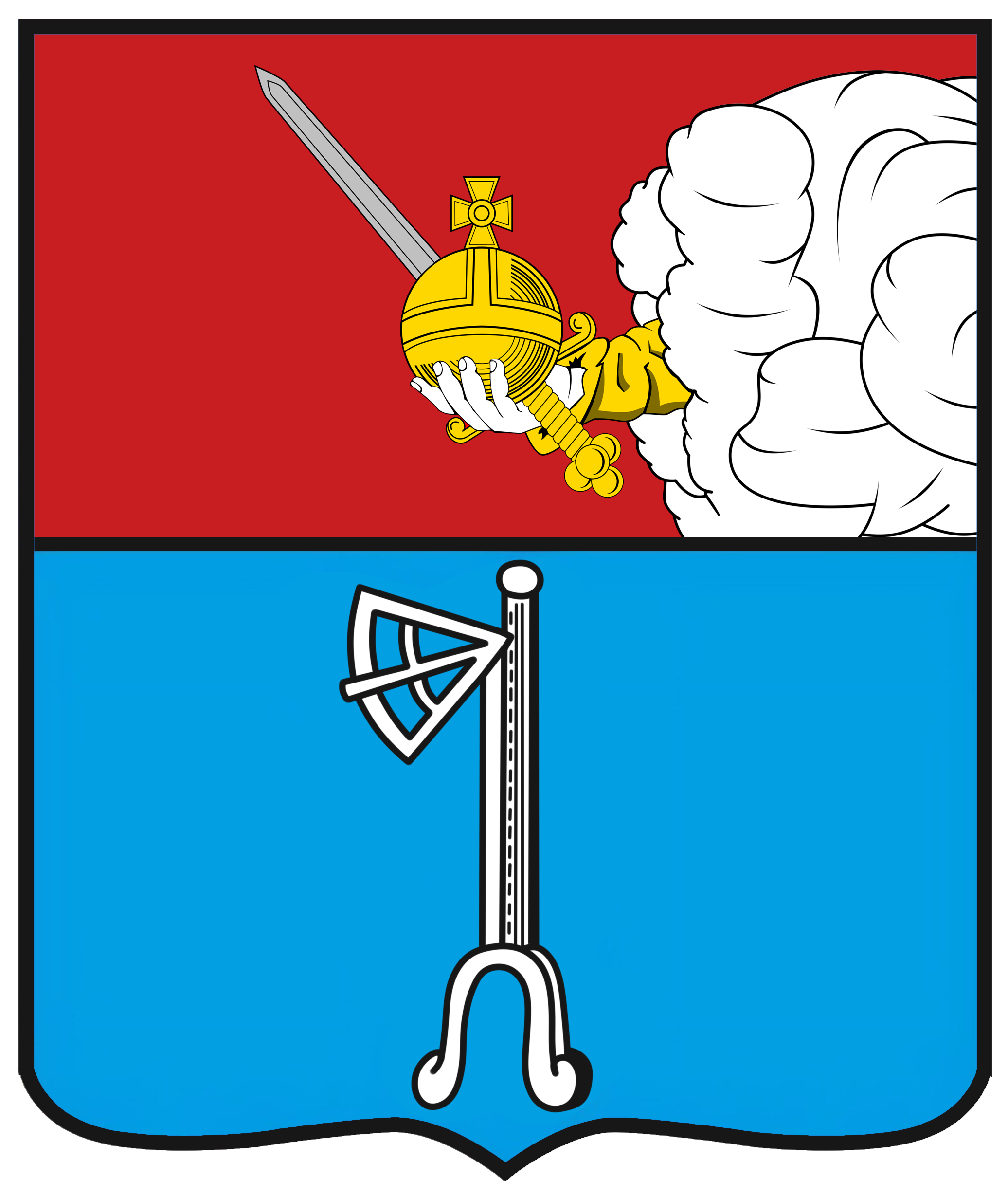 Kholmogory (Arkhangelsk oblast), coat of arms (1780)